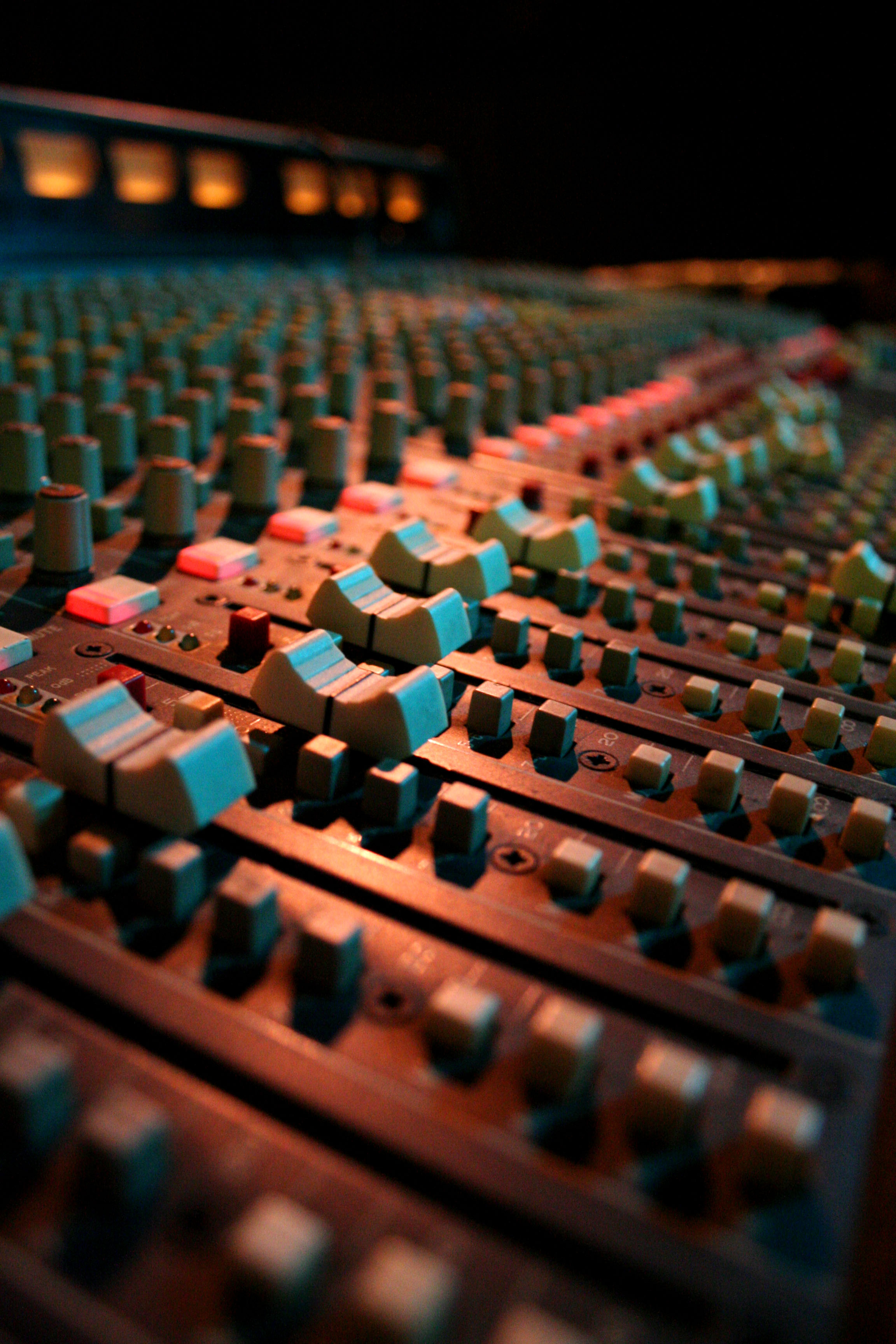 'Front of house' audio mixer at the Bull & Gate pub in Kentish Town, north London.